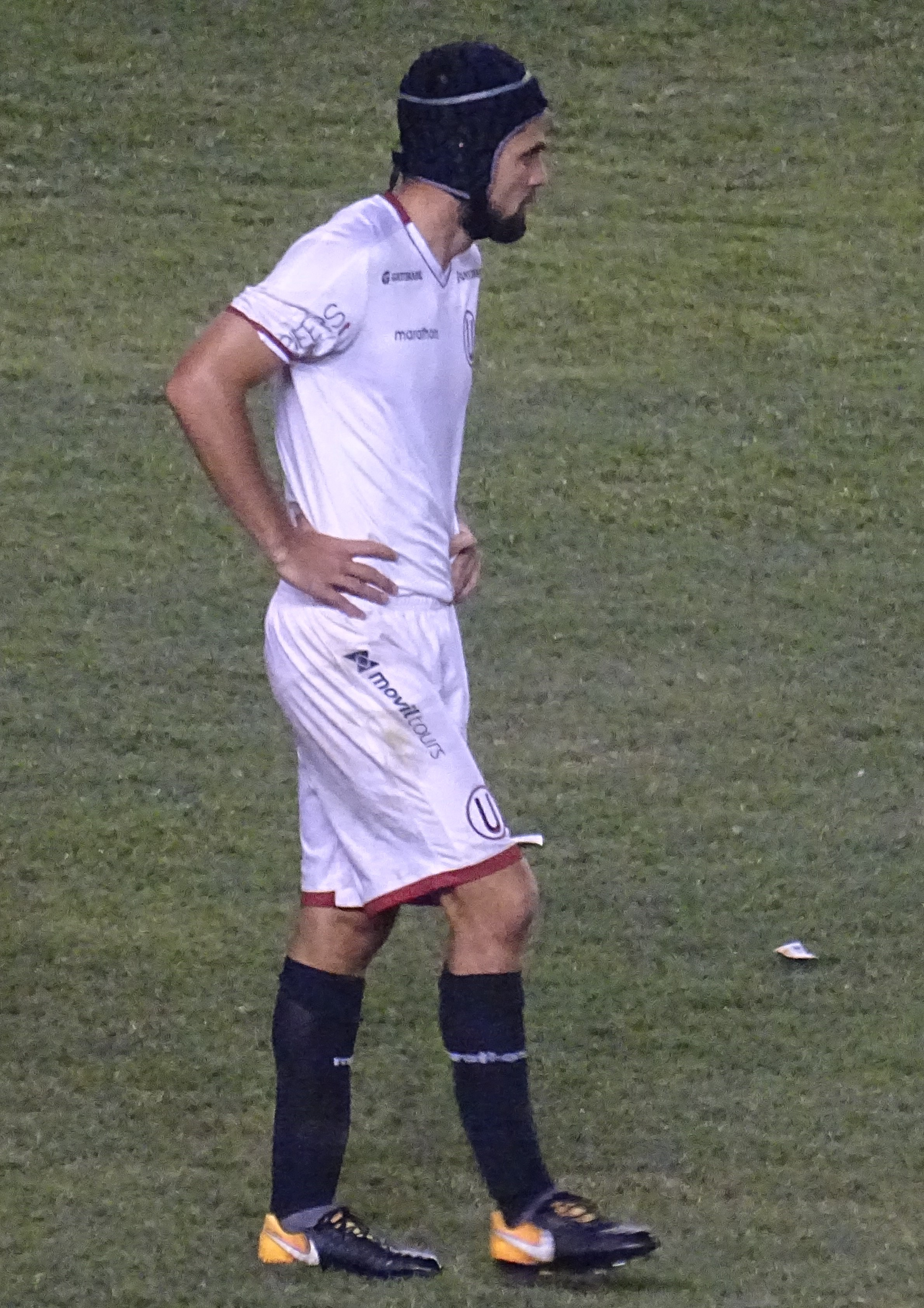 Werner Schuler (Asunción, 1990), paraguayan-peruvian footballer. Noche Crema 2018